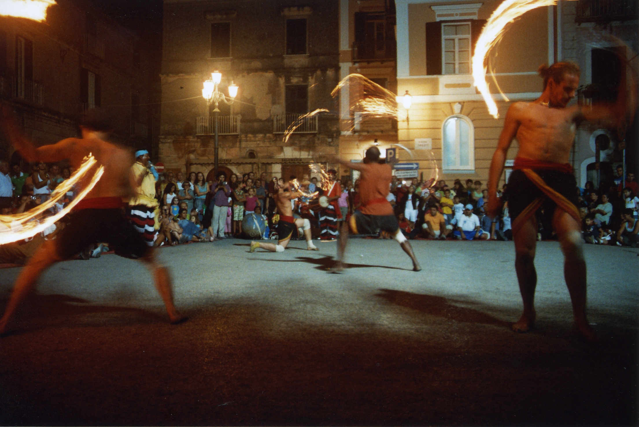 photo by: Andrea Bove